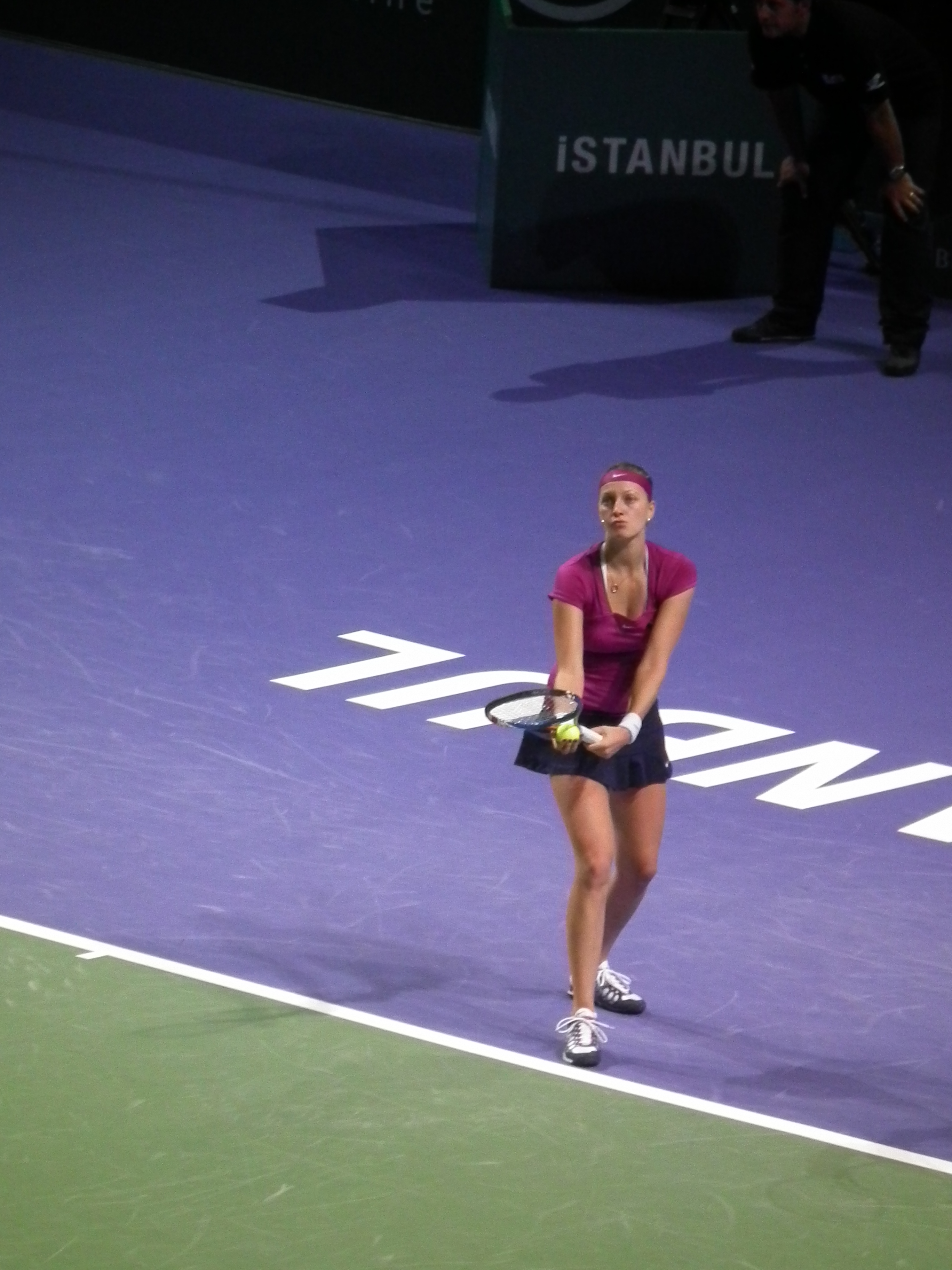 Petra Kvitová at WTA Istanbul 2011